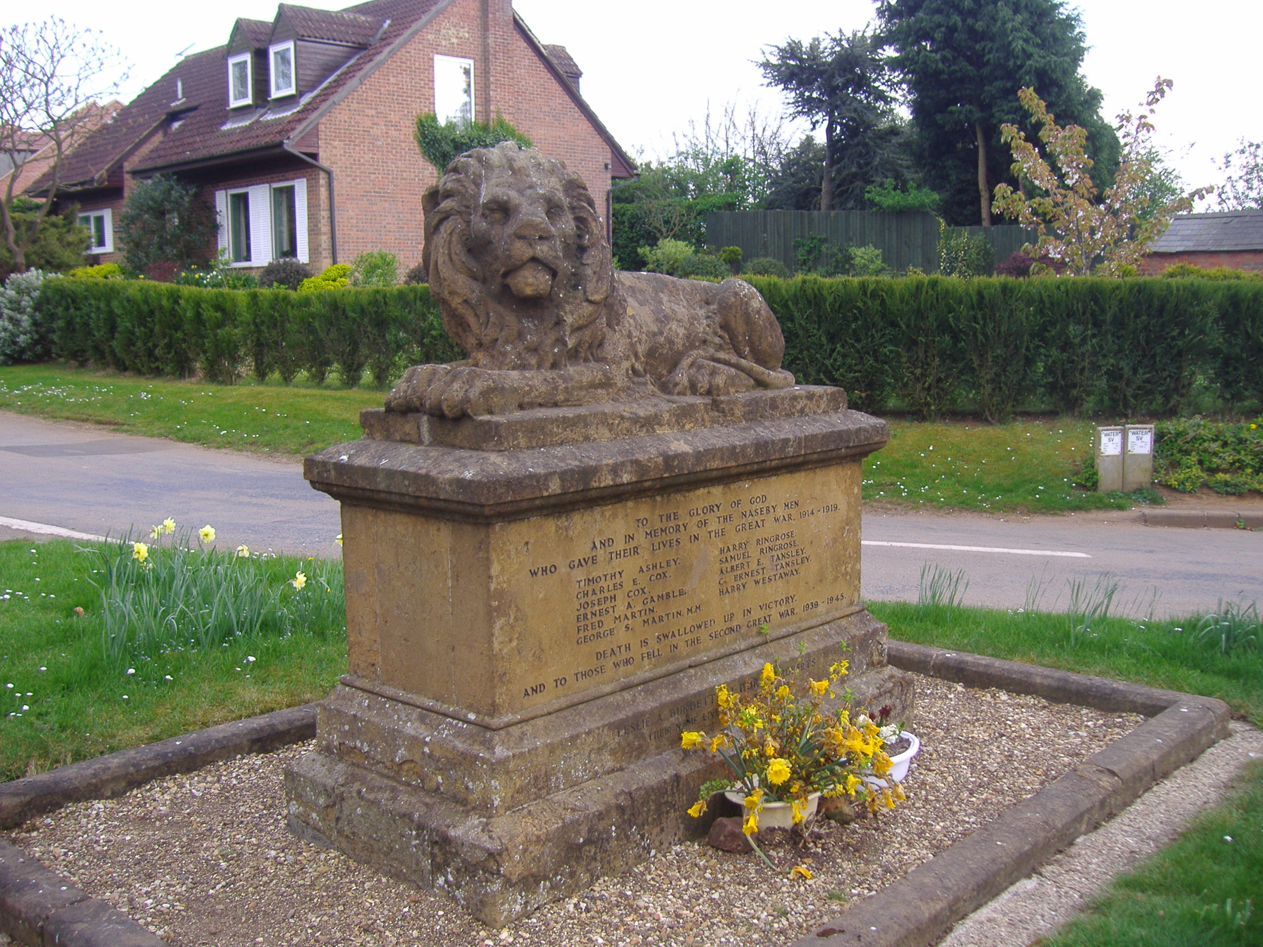 A Digital Photograph of the War Memorial in Naseby village